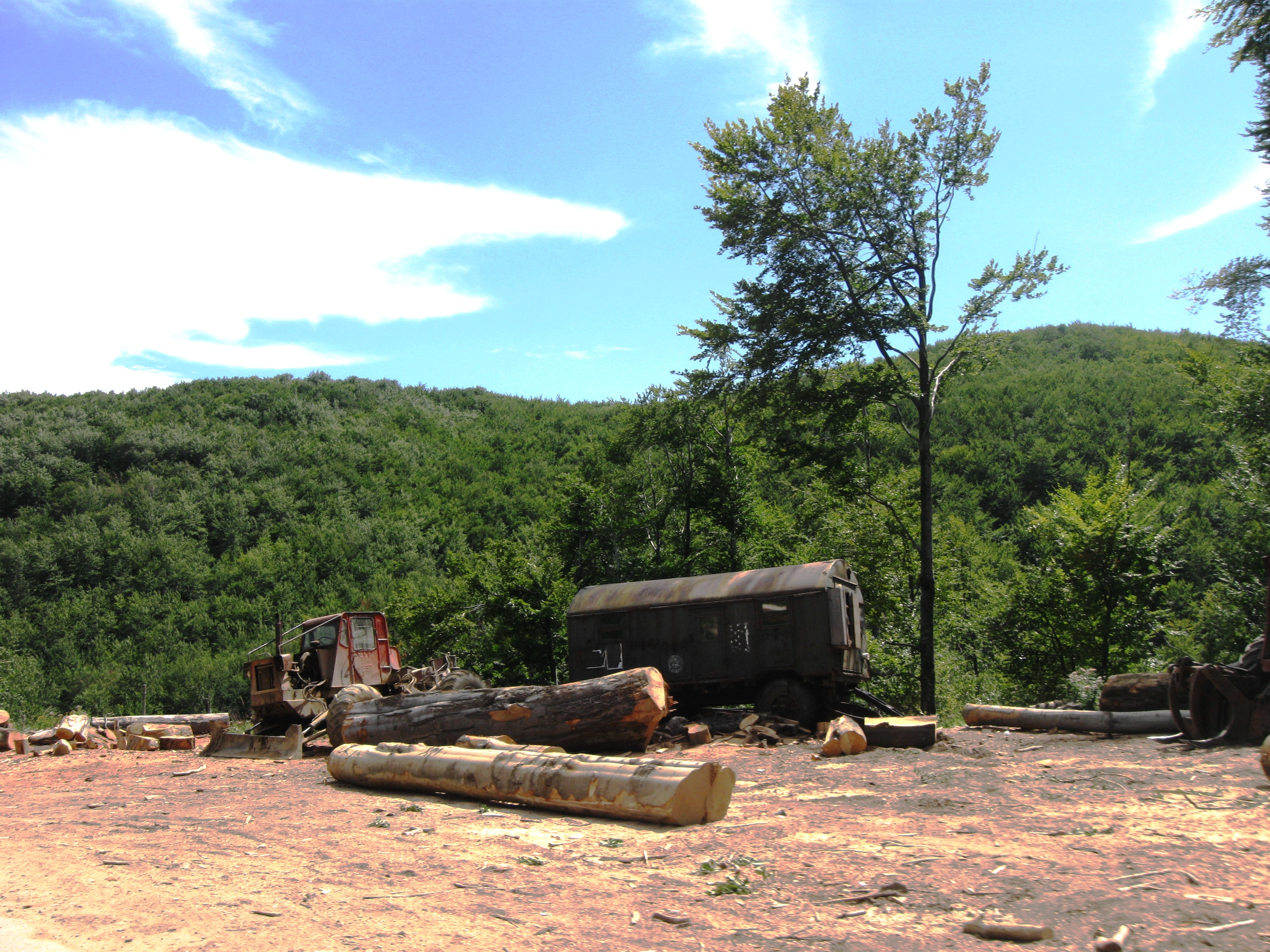 Logging in the Mehedinţi Mountains, Romania.